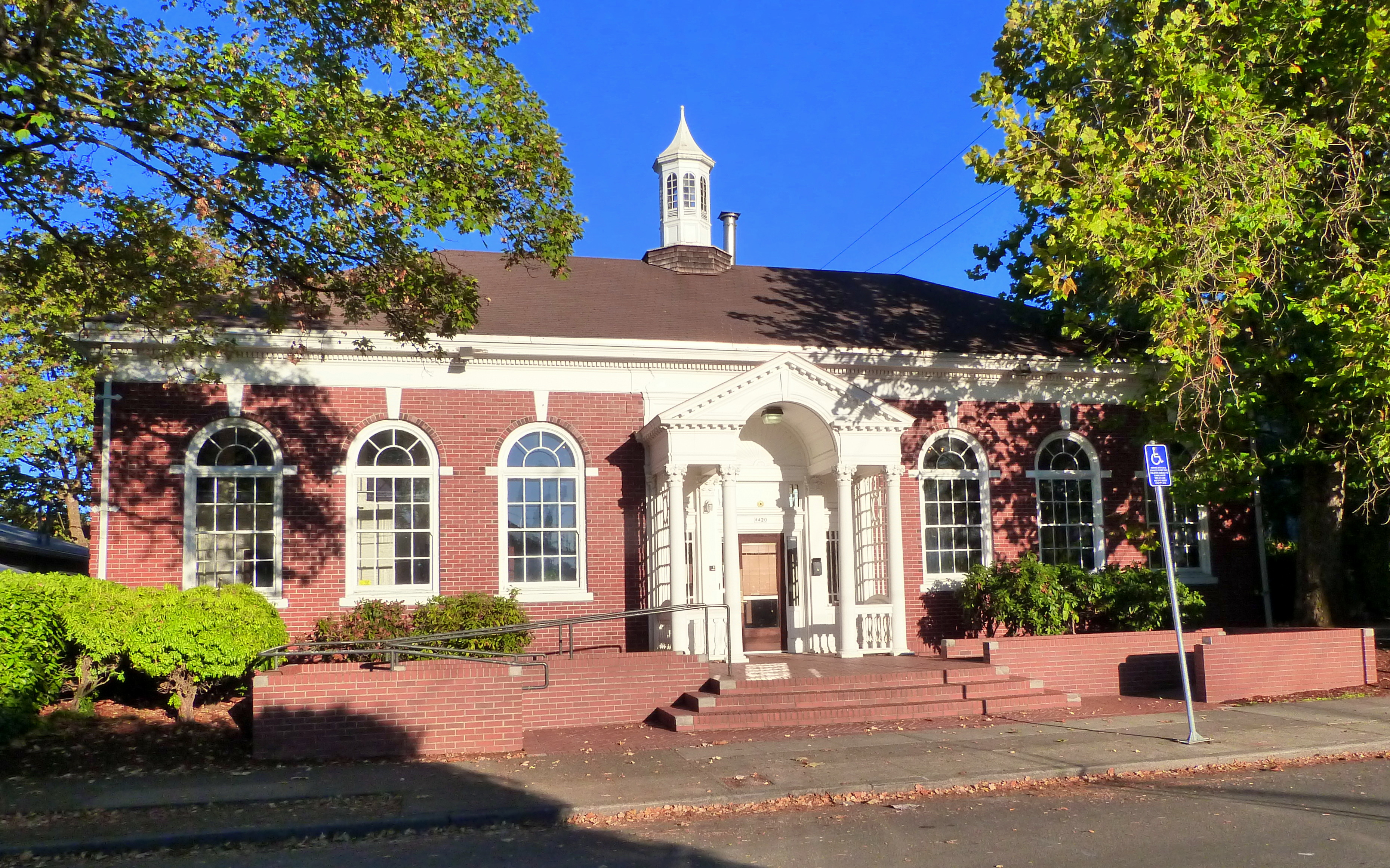 The historic Arleta Branch Library (built 1918), located at 4420 Southeast 64th Avenue in Portland, Oregon, United States, is listed on the US National Register of Historic Places.